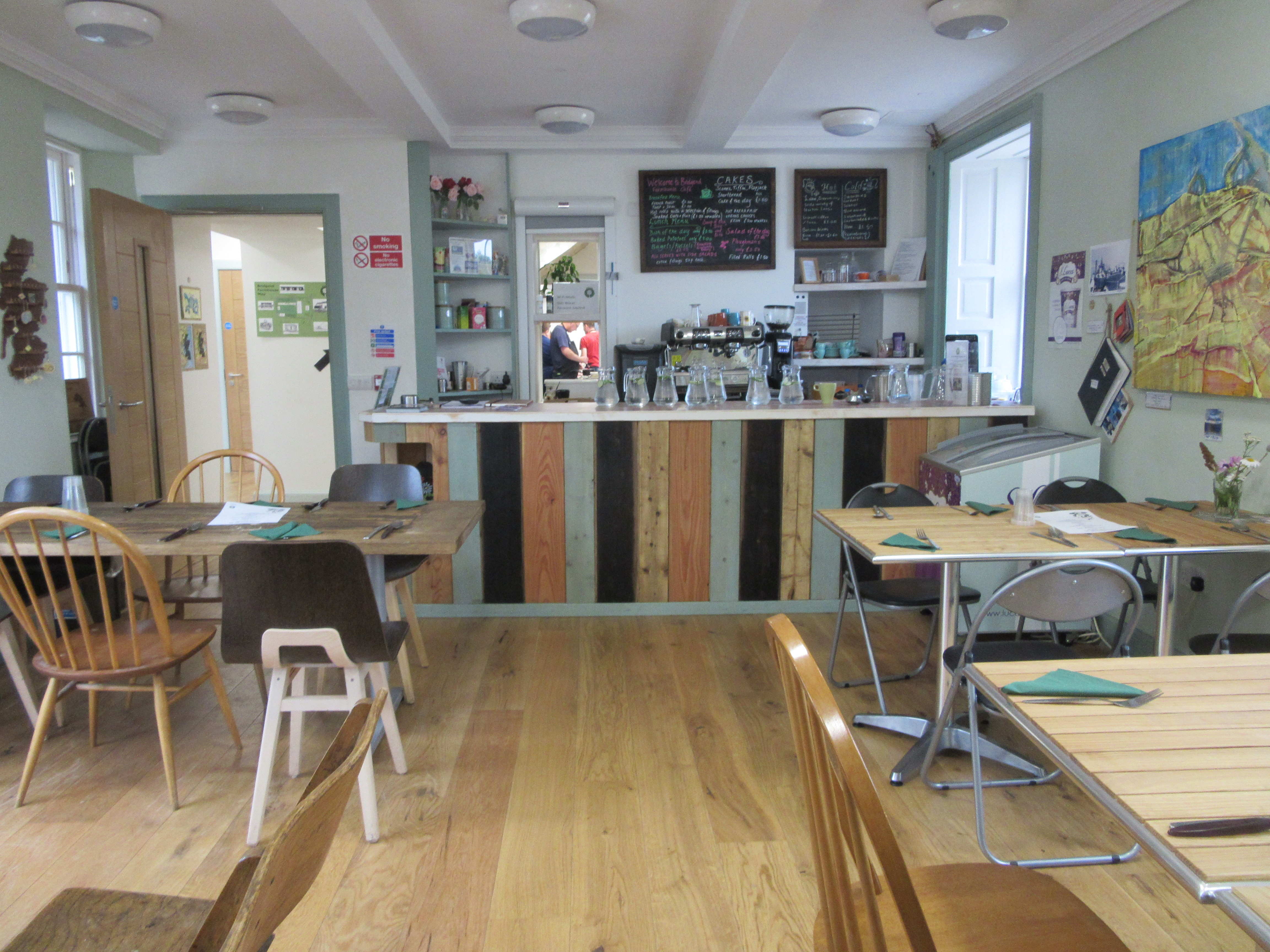 Bridgend Farmhouse Cafe inside 2